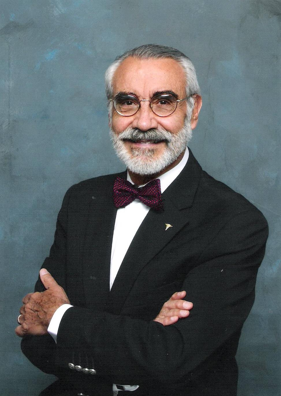 Photograpf of Dr Miguel Ángel Márquez Ruiz in 2011